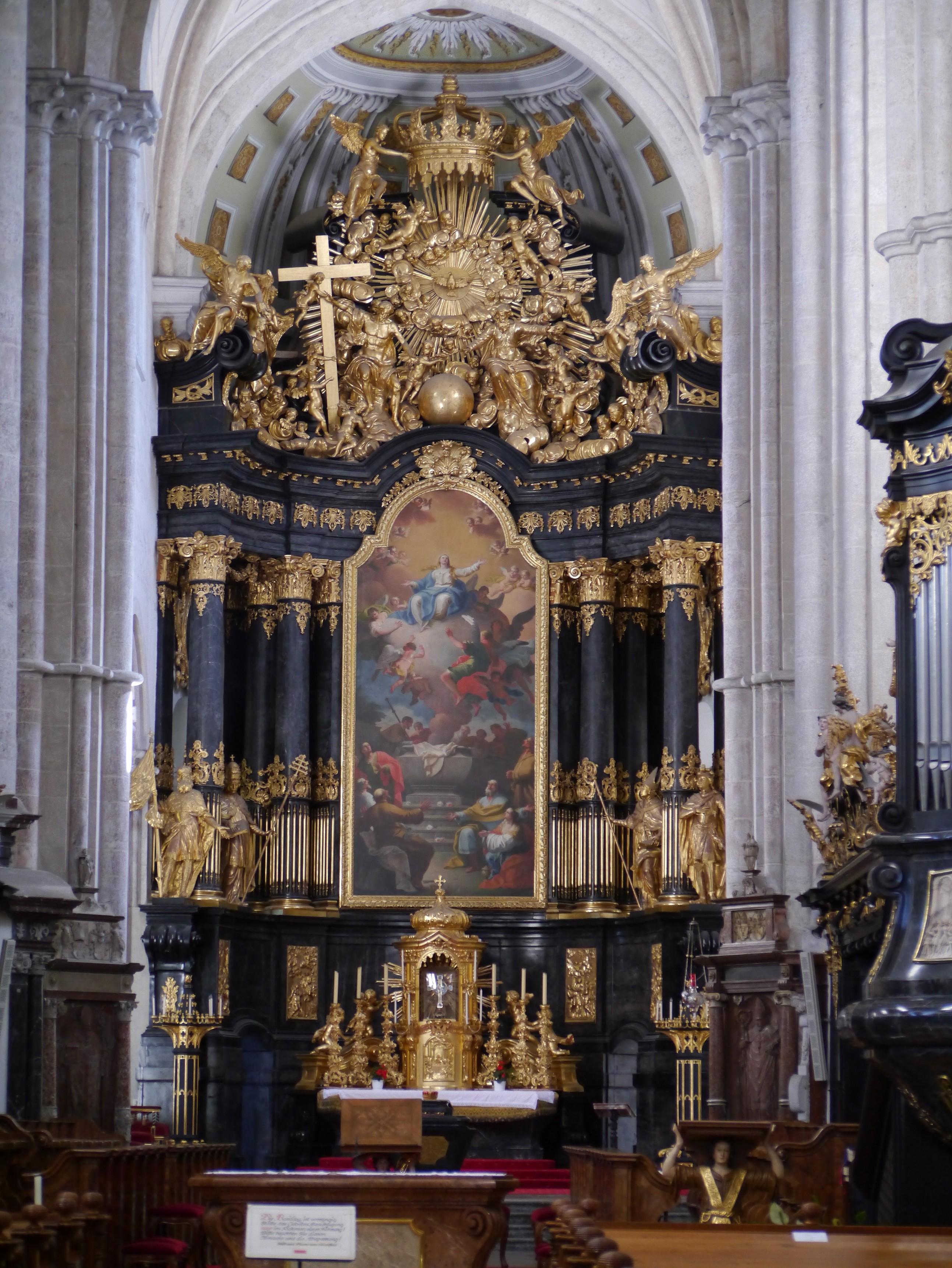 High Altar of Lilienfeld Monastery Church, Lilienfeld